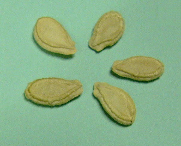 Seeds of mao qua. Each seed is about 3/4 cm long. Photo taken in Hong Kong in 2007.